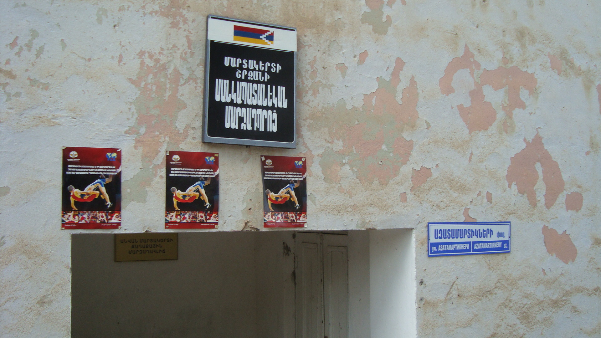 a sign in the entrance to the sport complex. Martakert, Republic of Mountainous Karabakh (Artsakh).